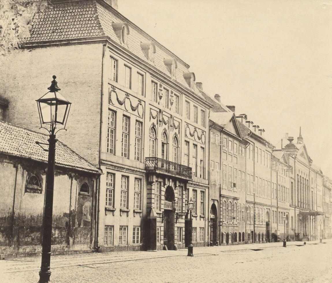 Amaliegade 18-10 in Copenhagen, Denmark